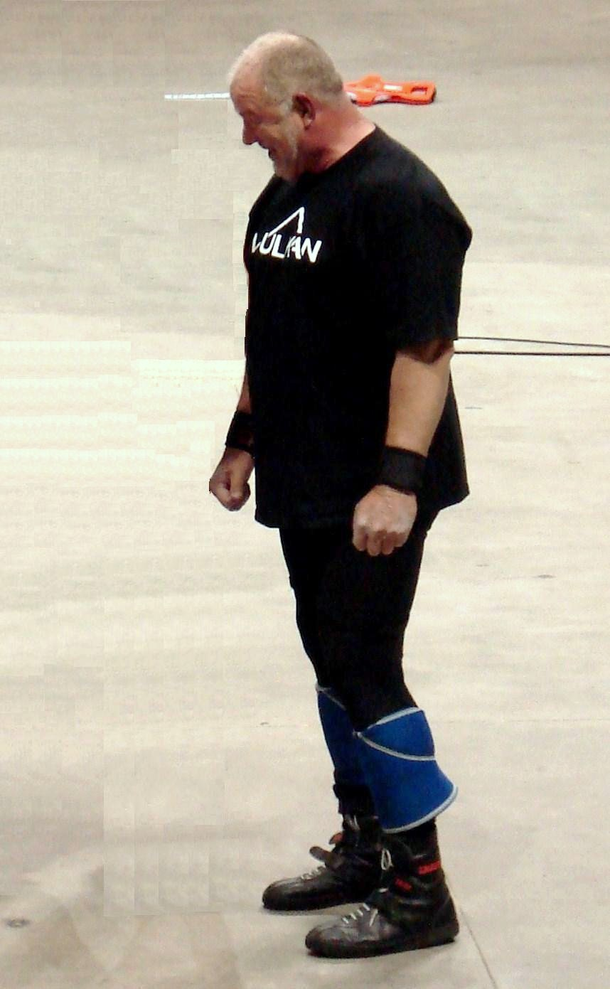 Odd Haugen - representing Norway or USA (cropped & retouched).